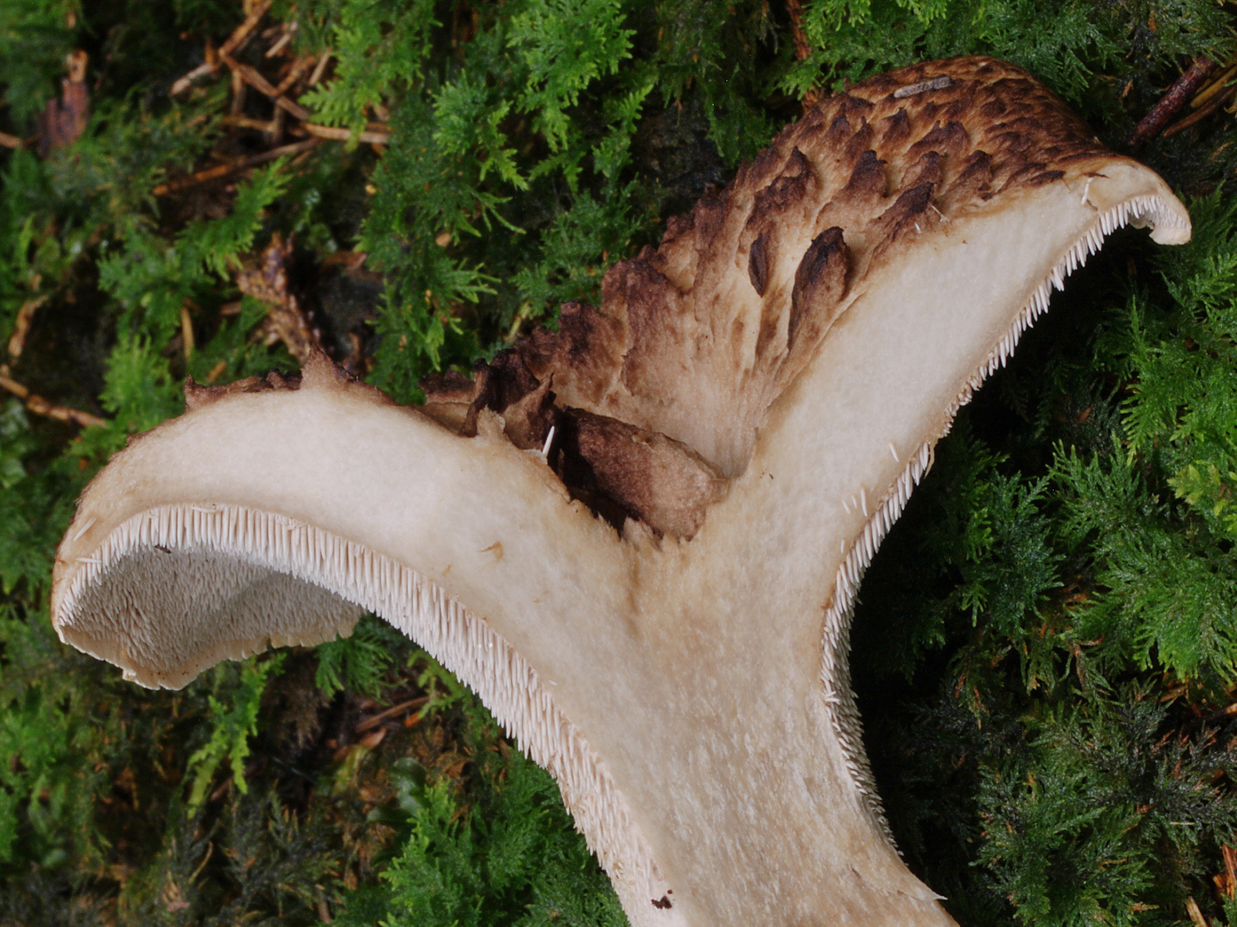 Habichtspilz (Sarcodon imbricatus)